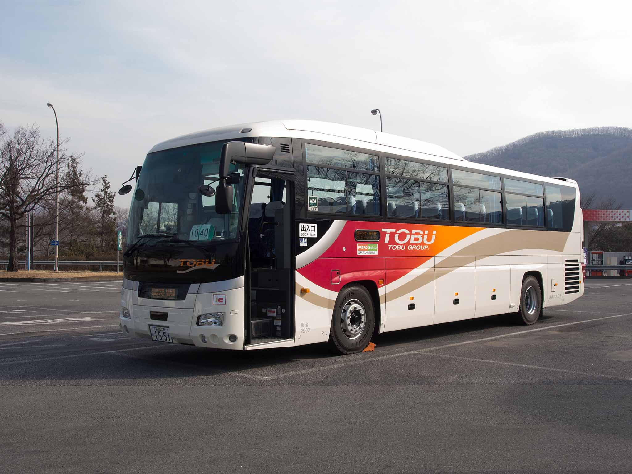 Fleet of Tobu Bus Nikko, as airport shuttle between Tokyo International Airport (Haneda Airport) and Nikko City, Tochigi since February 2018. Model: Isuzu Gala QRG-RU1ASAJ License plate: TGU200KA1551 ex: TKA200KA2936 (Tobu Bus Central) Place: Sano Service Area on Tohoku Expressway, Sano City, Tochigi